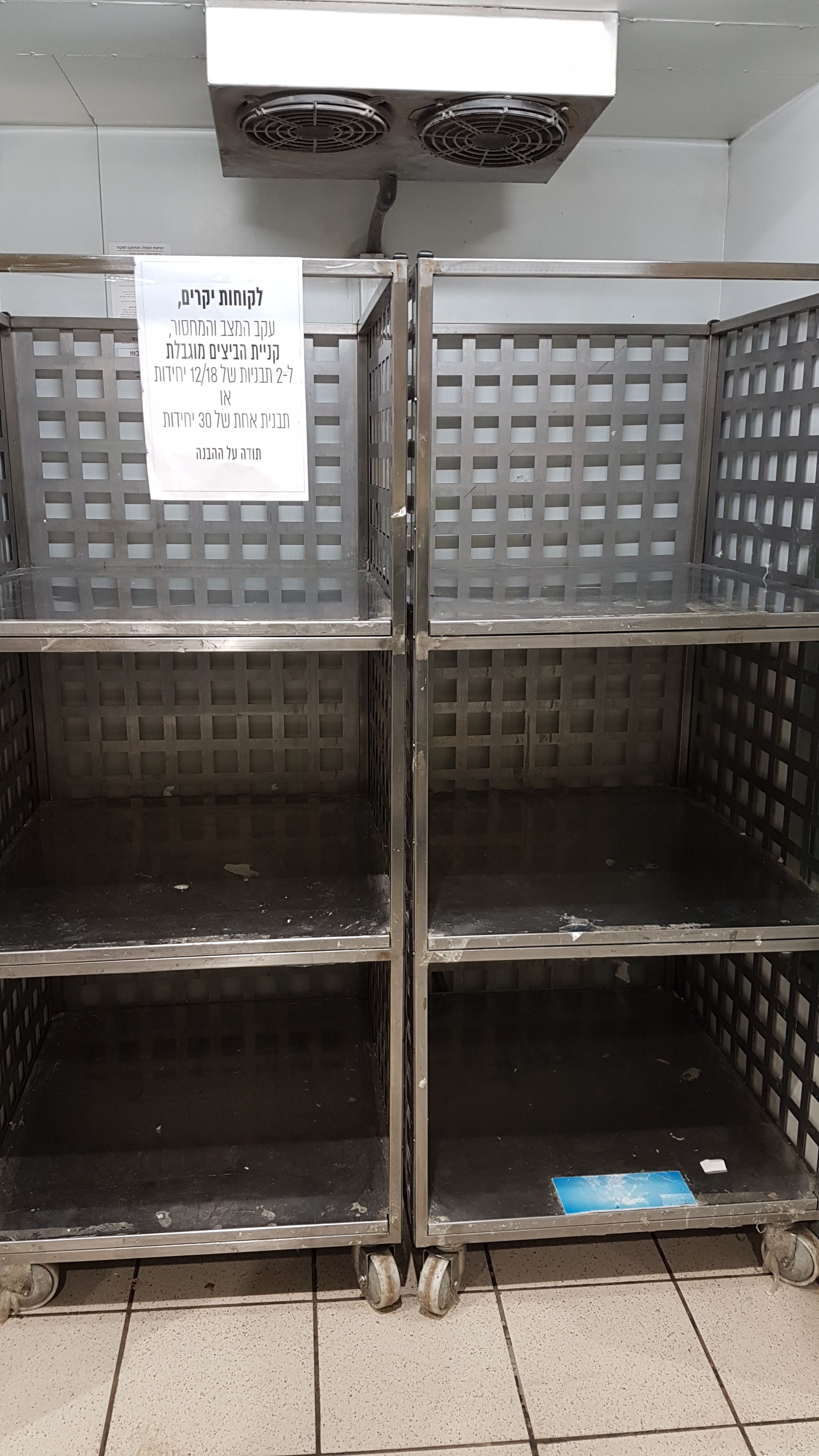 Empty egg shelf in a supermarket in Jerusalem during the COVID-19 pandemic, April 2020. The sign in Hebrew says: "Dear clients, Because of the situation and the shortage, buying eggs is limited to 2 boxes ot 12/18 units or one box of 30 units. Thank you for understanding."